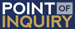 Logo of the Point of Inquiry podcast.